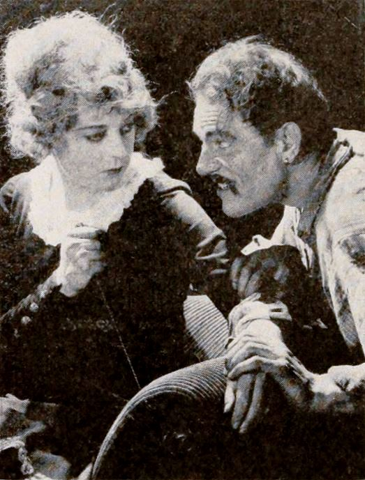 Still from the American drama film Victory (1919) with Seena Owen and Lon Chaney, on page 138 of the December 27, 1919 Exhibitors Herald.